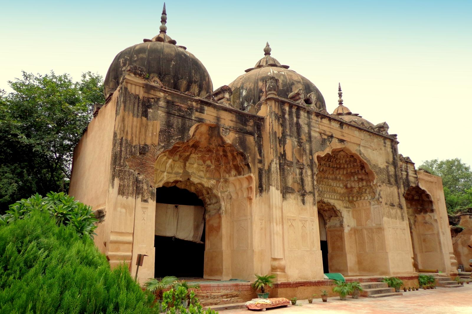 Shahi Mosque of Qudsia Begum, built in 1748. Qudsia Begum was the wife of Emperor Muhammad Shah.